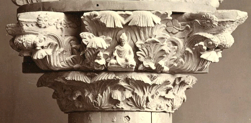 Corinthian capital with the Buddha in the center, from Jarmal Garhi